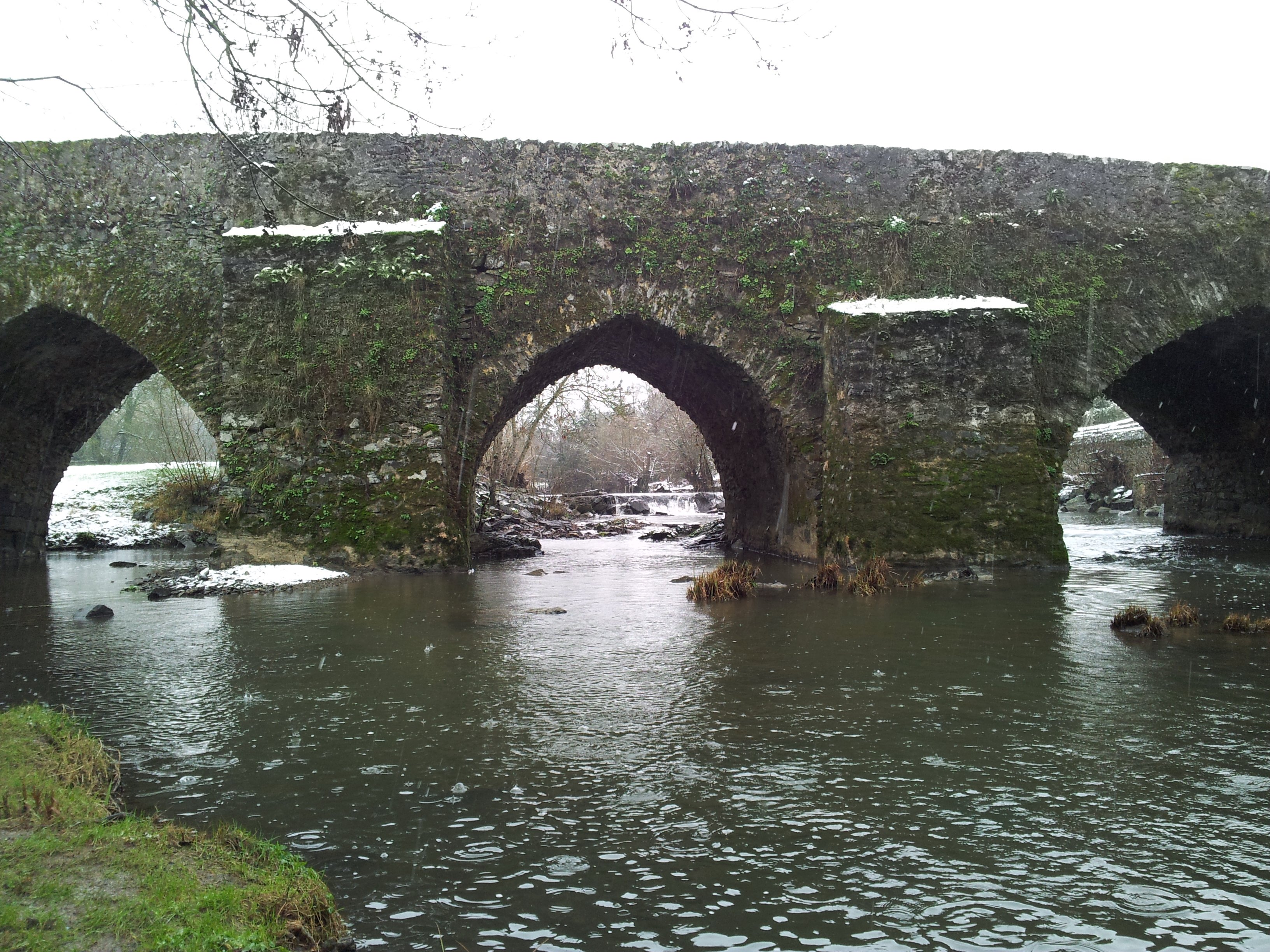 The Bohardy Bridge over the Èvre River in Montrevault, Maine-et-Loire (49)